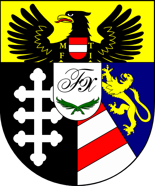 Coat of arms (shield only) of Franc Ksaver Lušin (Franz Xaver Luschin), bishop of Trento, Italy (1823/1824 - 1834), archbishop of Lviv, Ukraine (1834 - 1835), archbishop of Gorizia / Gorica, Italy (1835 - 1854). Coat of arms used in Gorizia / Gorica. Based on description and drawing in Siebmacher: Bisthümer (p. 91, tab. 151), personal escutcheon (in German) "über zwei gekreuzten Palmzweigen das Monogramm F. X.".